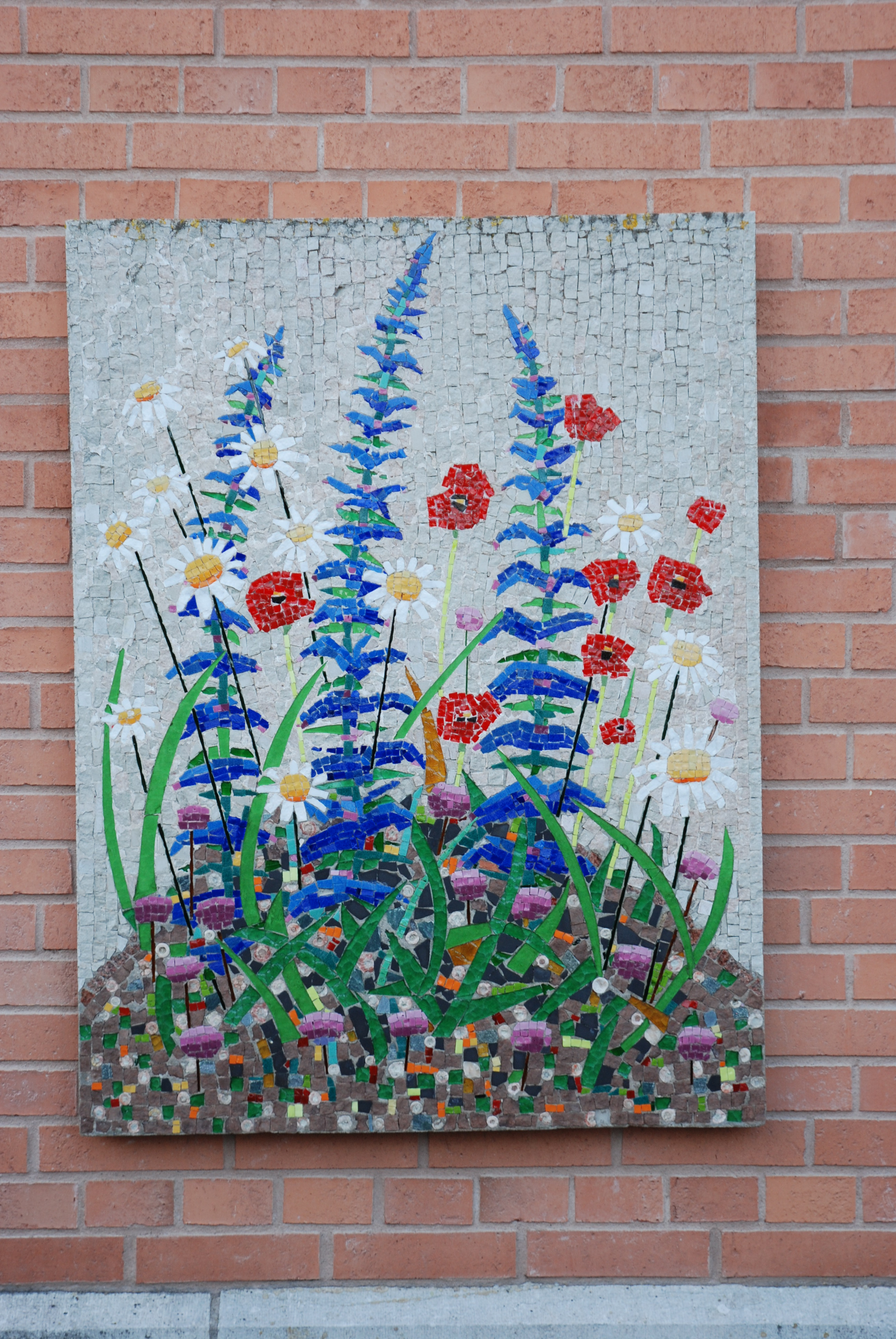 Erik Olssons Gotländsk vägkant, mosaik, 1995, vid ingången till Mösdravårdscentralen på Visby lasarett